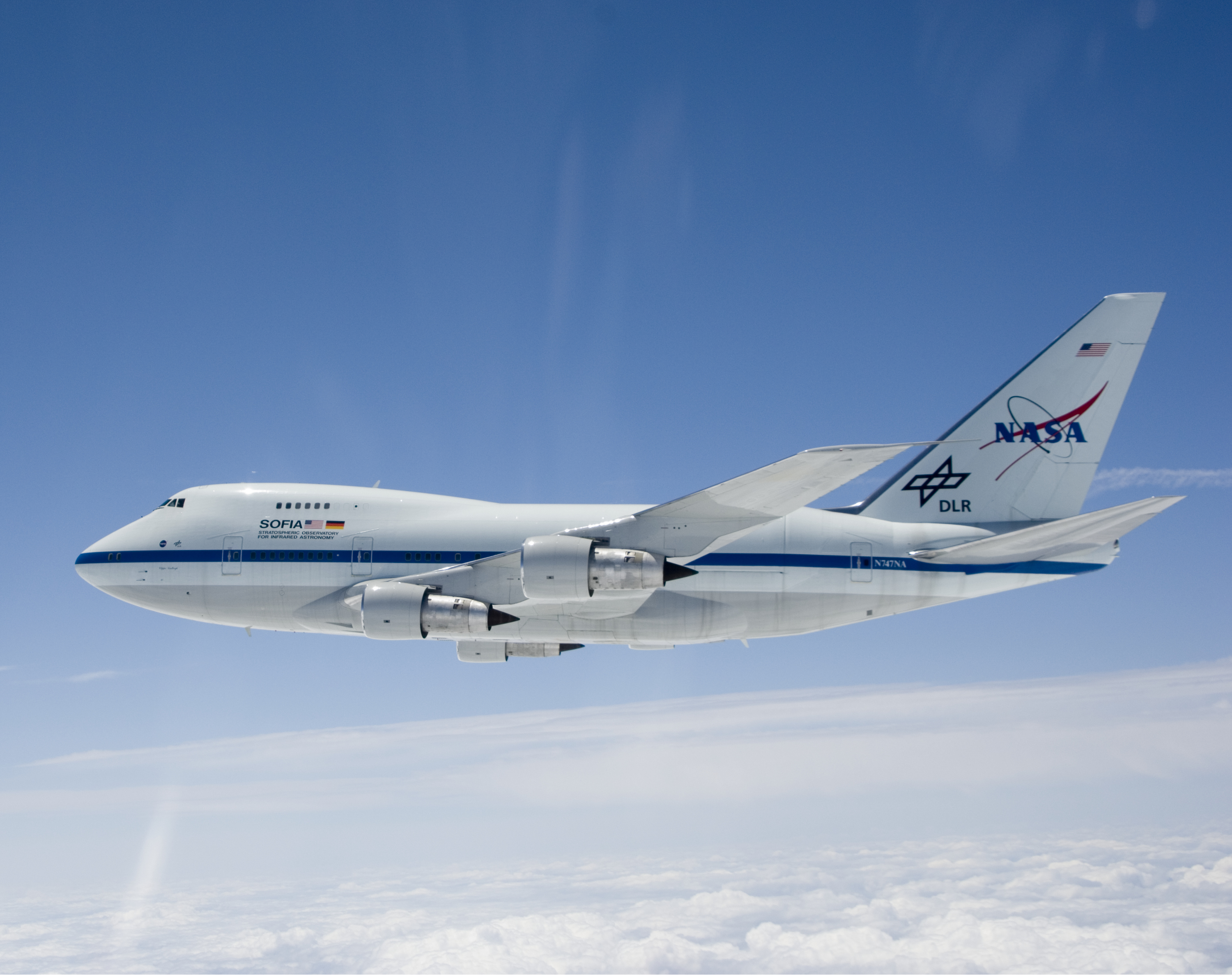 NASA's Stratospheric Observatory for Infrared Astronomy is silhouetted against the sky as it soars on its second check flight near Waco, Texas on May 10, 2007.